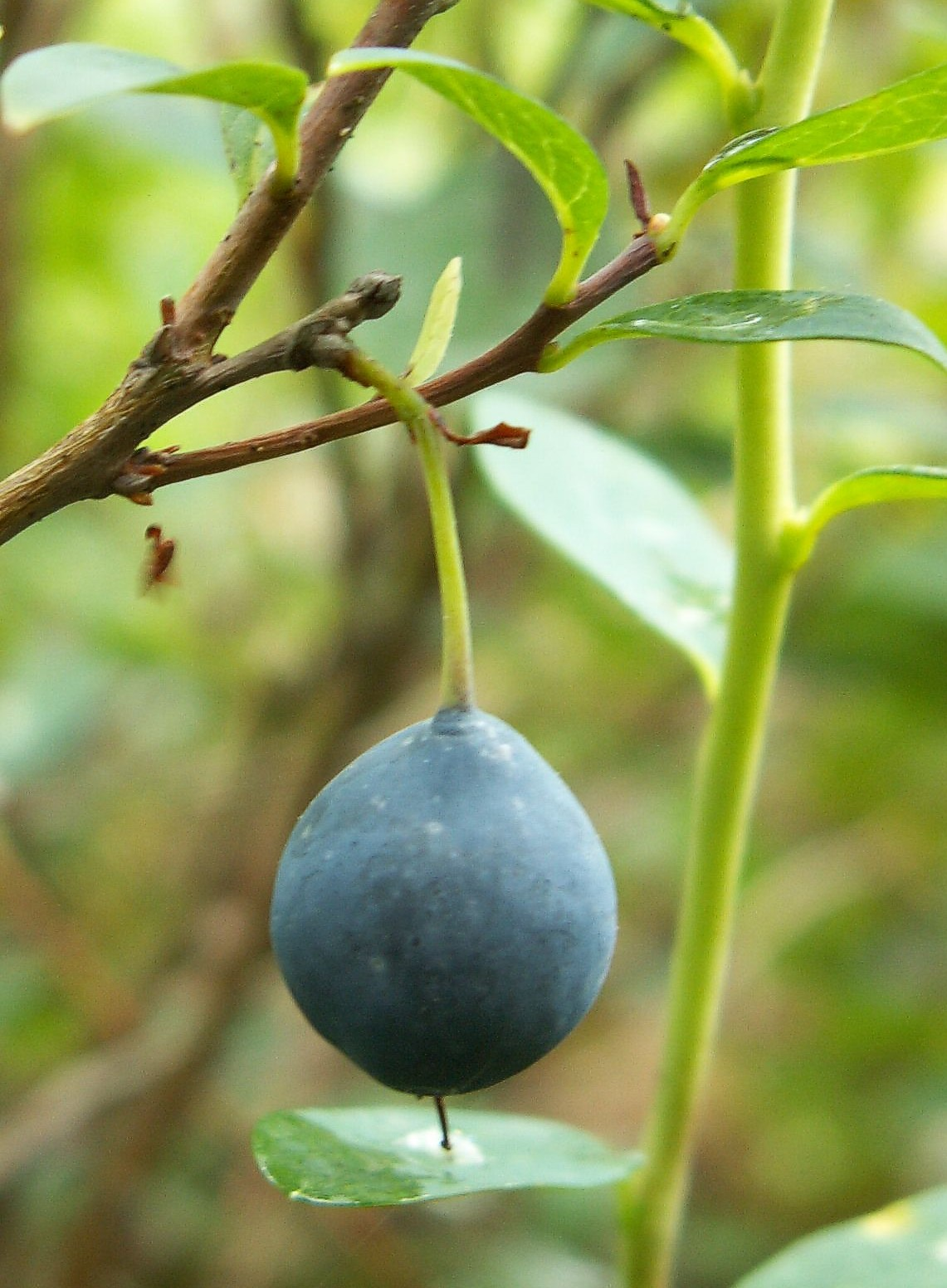 Fruit of Vaccinium uliginosum. Goleniow Forest near Goleniow, NW Poland